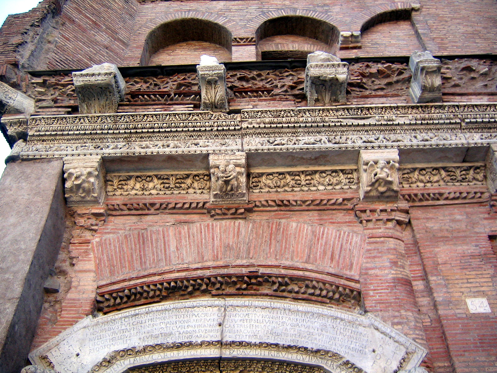 The thousand-year-old House of Crescentius is so-called from the inscription visible on the marble of the arch at the bottom of the photograph. Rome.